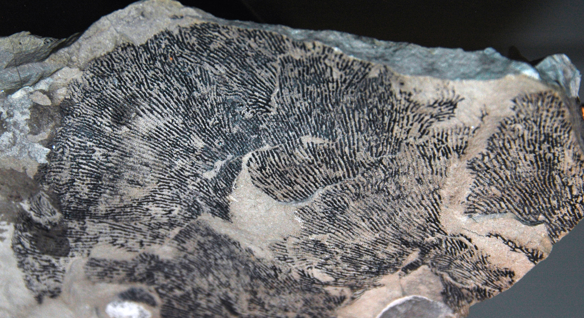 Dictyonema crassibasale Gurley in Bassler, 1909 fossil graptolites, preserved as carbonized compressions in dolostone from the Silurian of Ontario, Canada (public display, Colorado School of Mines Geology Museum, Golden, Colorado, USA). Classification: Animalia, Hemichordata, Graptolithina, Dendroidea, Dendrograptidae Stratigraphy: Lockport Dolomite, upper Middle Silurian Locality: Hamilton area, southeastern Ontario, southeastern Canada Graptolites are an extinct group of hemichordates that are most commonly preserved as carbonized compressions on shale bedding planes. They are typically not glamorous fossils, but they are critically important guide fossils and are widely used in biostratigraphy and for international correlation. The most abundant group of graptolites in the fossil record is the graptoloids. Graptoloid graptolites typically resemble small hacksaw blades. Each “tooth” of the hacksaw blades housed a tentaculate, filter-feeding organism. The entire hacksaw blade is the graptolite skeleton, known as a rhabdosome - a nonmineralized colonial skeleton. Most graptolites were planktonic. The second most abundant group of graptolites is the dendroids (seen here). Dendroid graptolites attached to substrates and had colonial skeletons (rhabdosomes) that are generally broadly branching (conical to fan-shaped to shrub-like to flat spirals). Other grapolite groups are very rare: the crustoids, tuboids, camaroids, and stolonoids. Carbonization refers to fossils being preserved as dark-colored, flattened, carbon-rich films. Many fossil leaves in the rock record have been carbonized. But, any fossil that's been preserved as a dark, flattened film can be called carbonized.